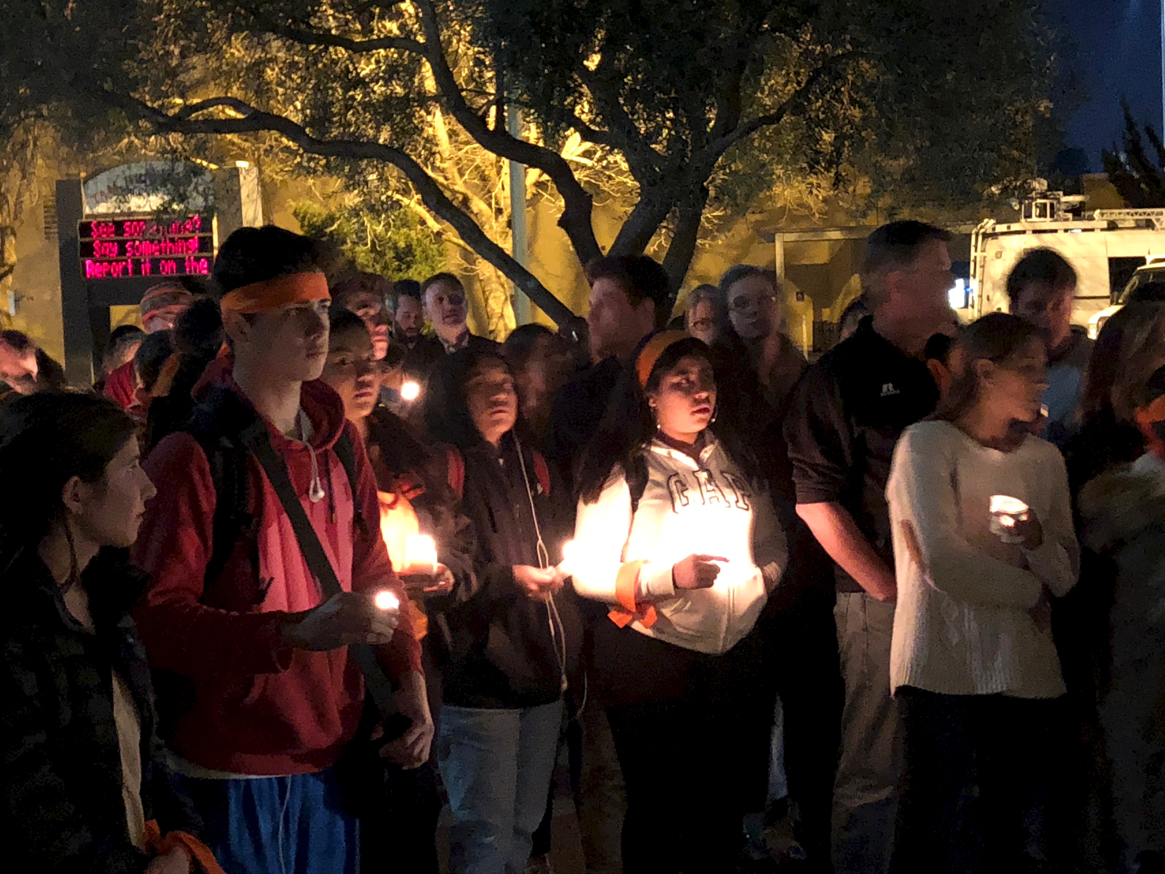 I participated in a moving vigil at Tam High School in Mill Valley for the victims of the recent school shooting in Parkland, Florida. Students organized this gathering in just a day and hosted nearly a hundred people of all ages, including news cameras from all major networks. They hosted this event at twilight on February 15, 2018, in front of their school’s entrance, passing around candles and orange wristbands to protest gun violence. They spoke from the heart about this tragedy, what it meant for them and what they plan to do about it. Other community members shared their views as well, including our friends at MVCAN, our political action group. In between speeches, we were invited to talk with people standing next to us, and it was a great opportunity to connect with people of different ages. We discussed a wide range of actions related to gun rights, mental health and violence, as well as the impact of fear, money and politics. I was inspired by these young people’s commitment to improving our world through constructive political action. See more of my photos of the Tam High Vigil: Learn more about the Tam High Vigil for Parkland: studentsforparkland, #tamstudentsforparkland, #wearorange